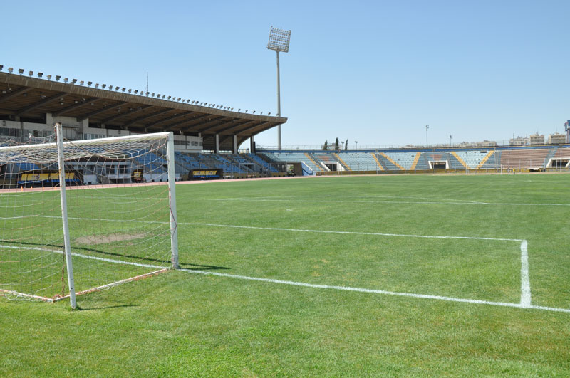 Al-Hamadaniya stadium Aleppo